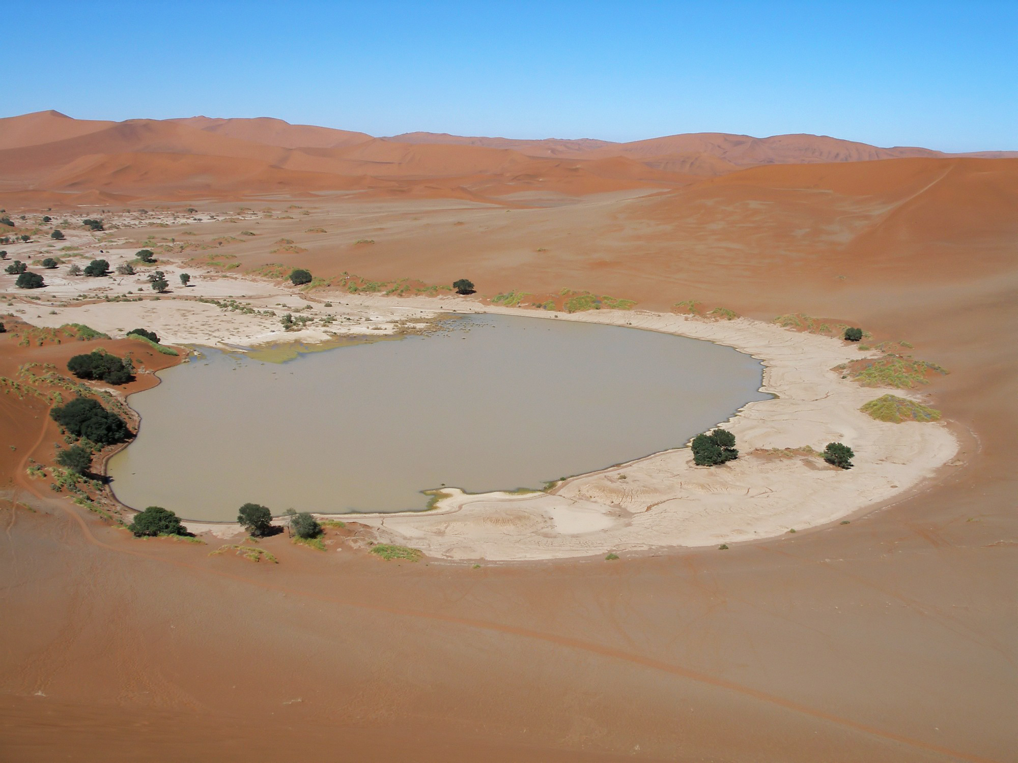 The clay pan at Sossusvlei filled with water, as it can be seen once in a decade. It is fed by the Tsauchab river via the Sesriem canyon, and is situated in the central Namib Naukluft, western Hardap Region, Namibia